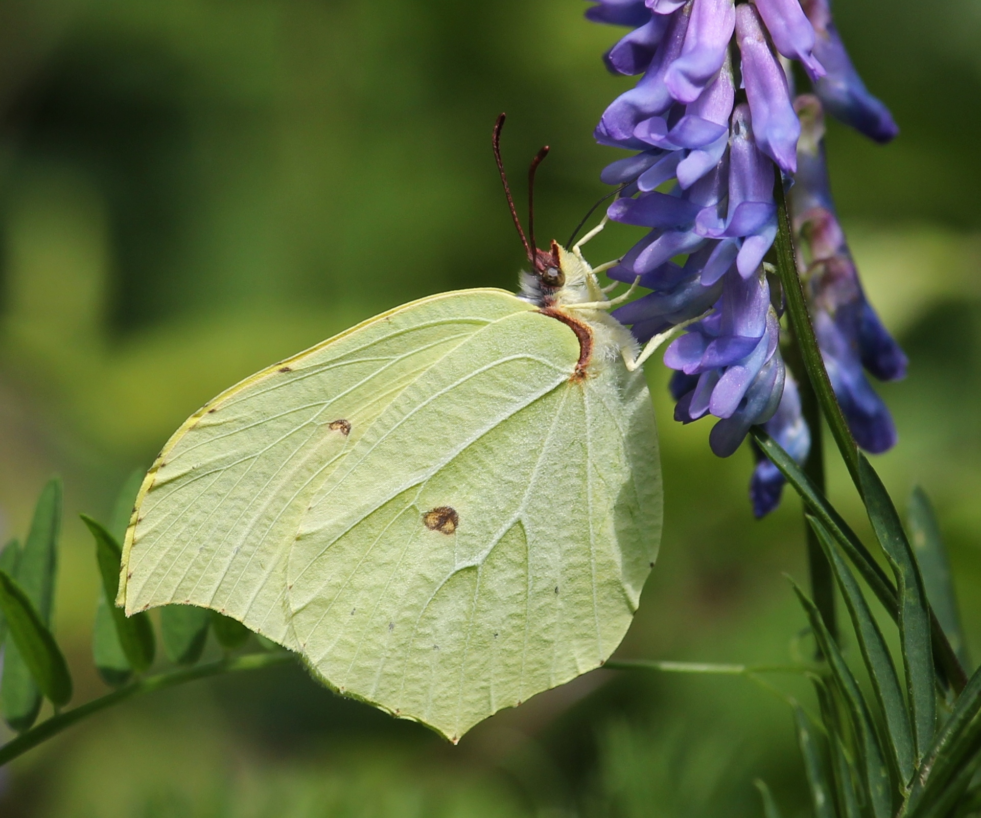 Lesser Brimstone (Gonepteryx aspasia), feeding nectar of Vicia cracca, in Mount Ibuki, Maibara, Shiga prefecture, Japan.